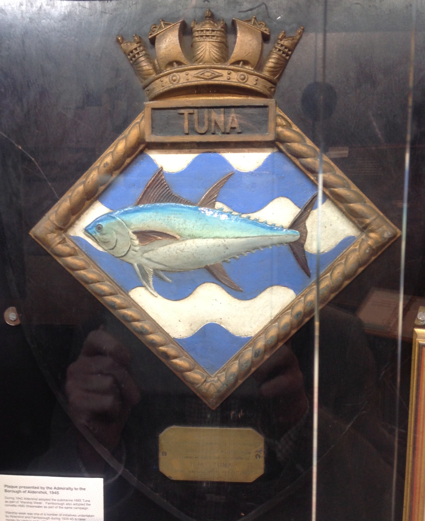 Plaque with badge of HMS Tuna, sponsored by the town of Aldershot during Warship week 1942. Plaque now at Aldershot Military Museum.